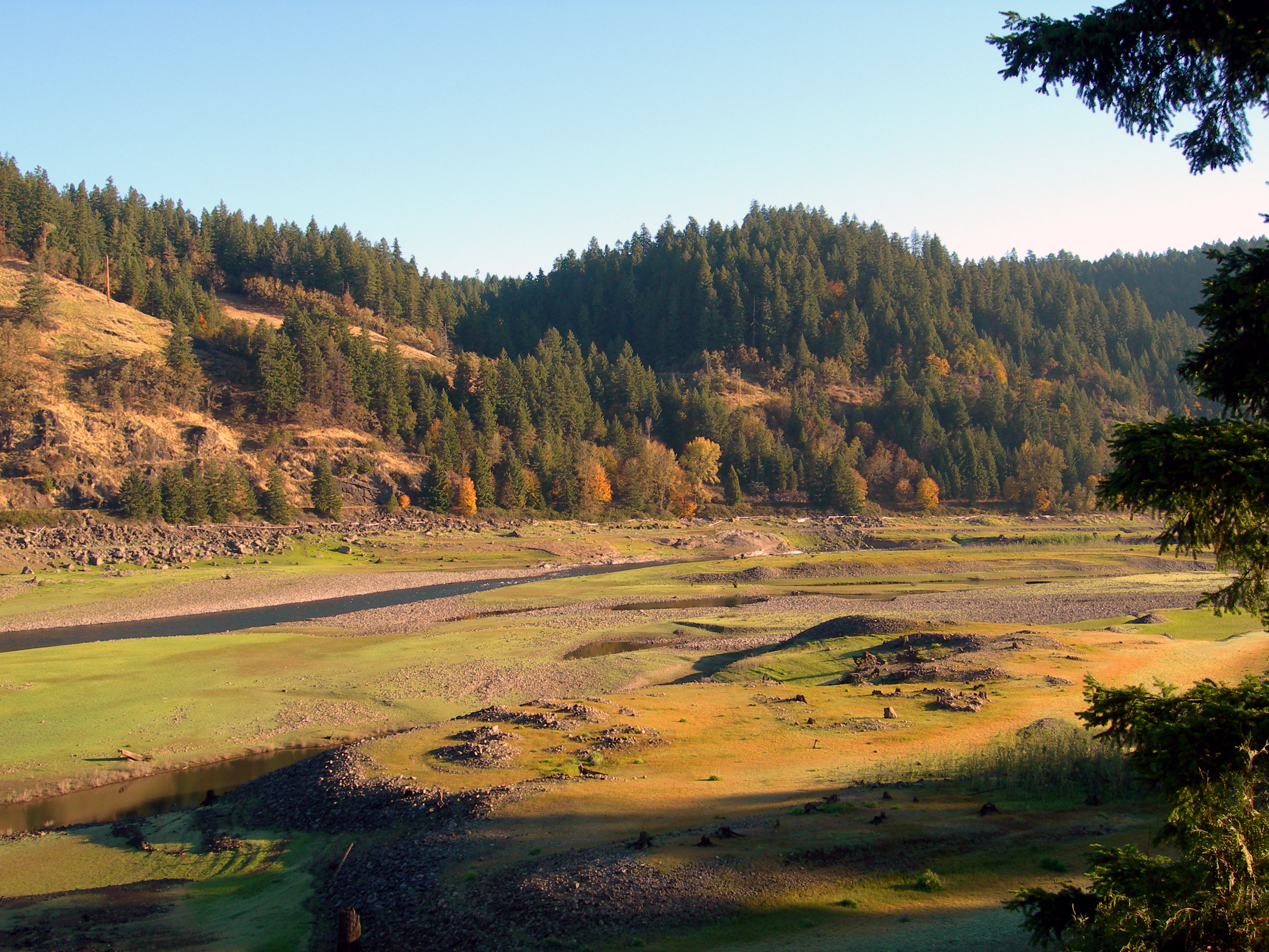 The Middle Fork Willamette River behind Lookout Point Dam near Westfir, Oregon. Lookout Point Reservoir is drained in the autumn to free up reservoir storage for heavy winter precipitation.